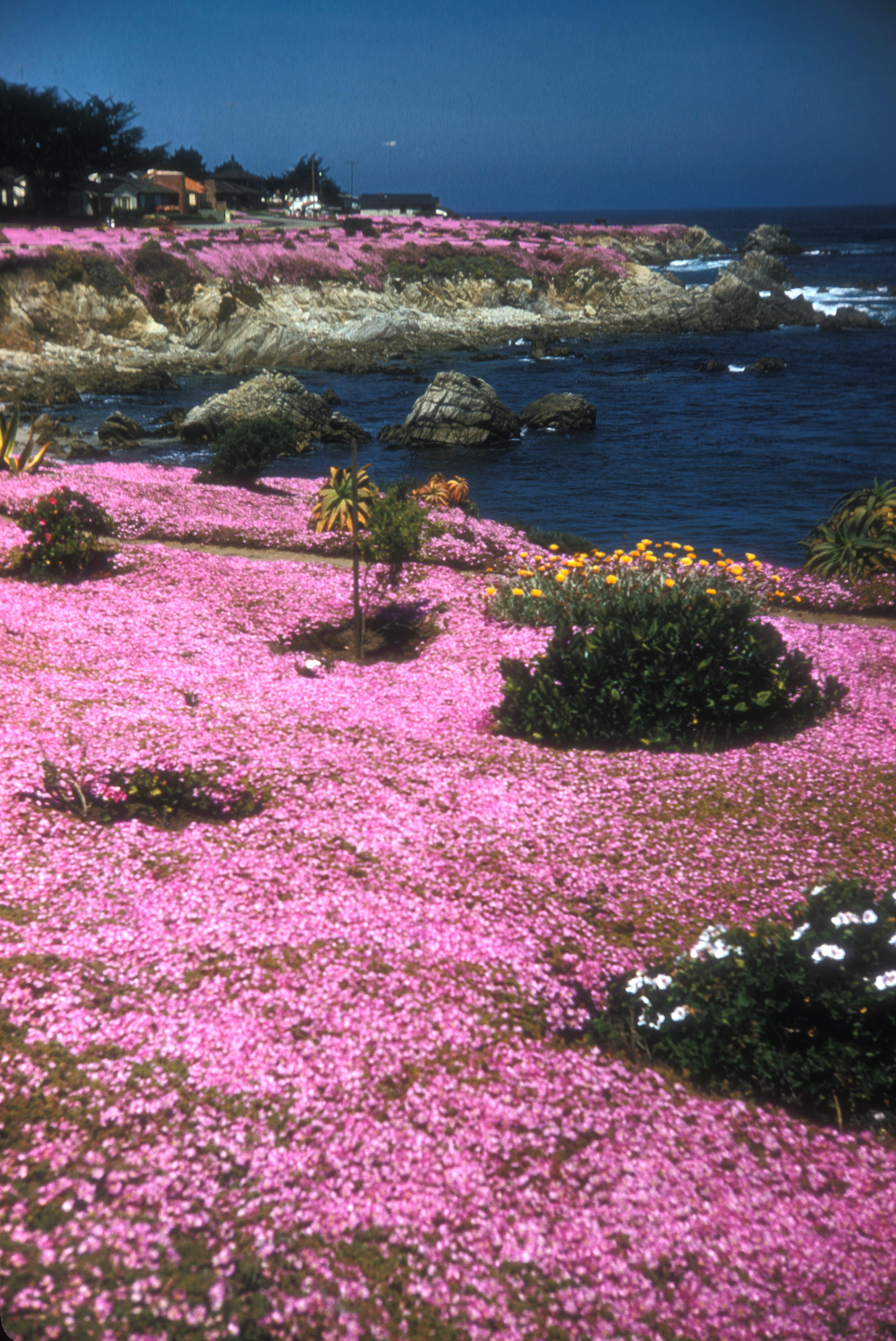 ICE PLANTS IN BLOOM IN MAY WHICH GO RIGHT DOWN TO THE SEA. PACIFIC GROVE PLANTS FLOWERS TO CONSTANTLY ATTRACT THE MONARCH BUTTERFLY FOR WHICH THE TOWN IS FAMOUS